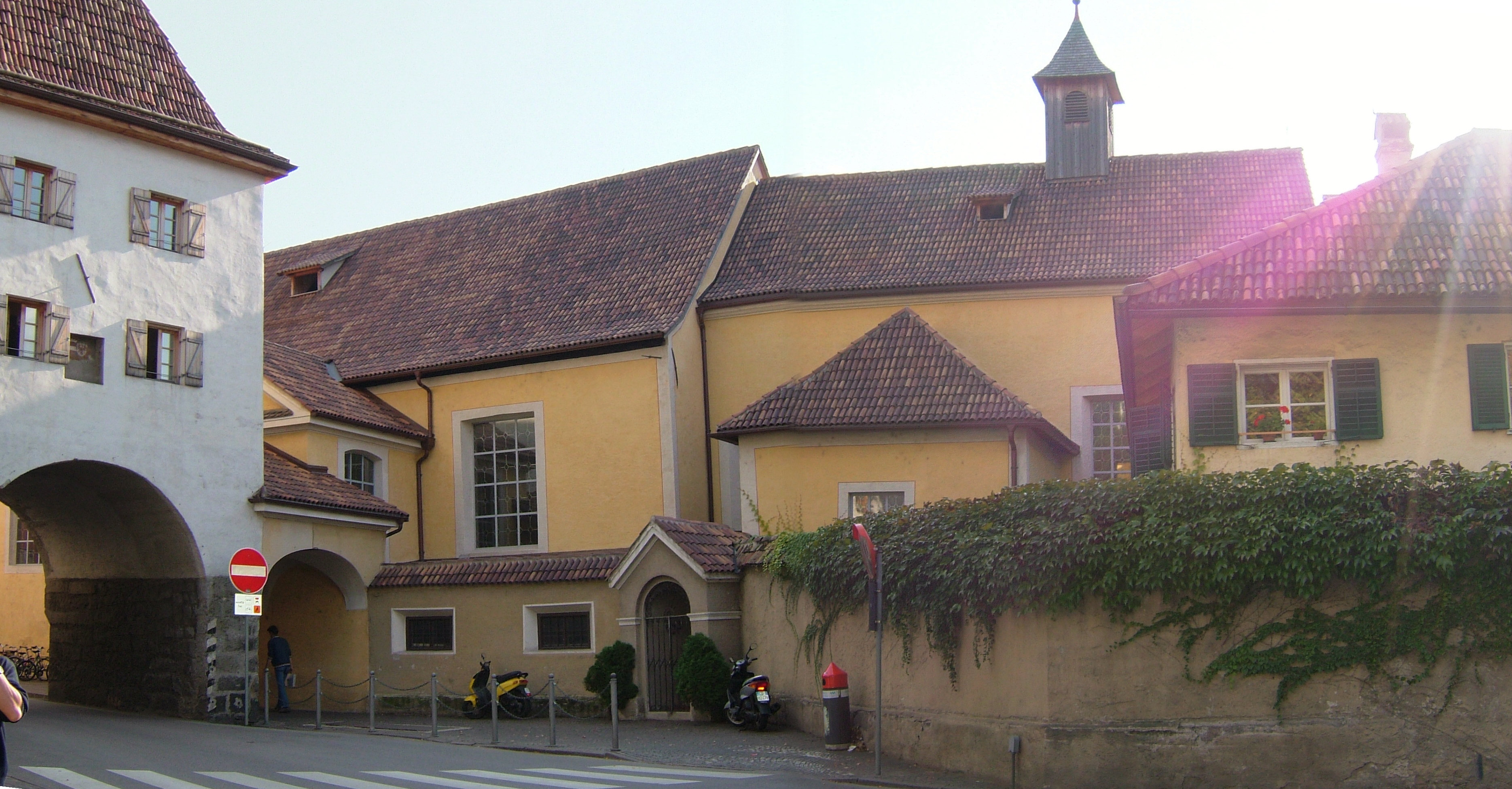 Meran Old Town Goethestrasse-Guiseppe Verdi Strasse-Rennweg Intersection Abbey of the Order of Friars Minor Capuchin with St. Maximilian church, Vinschger Gate at left